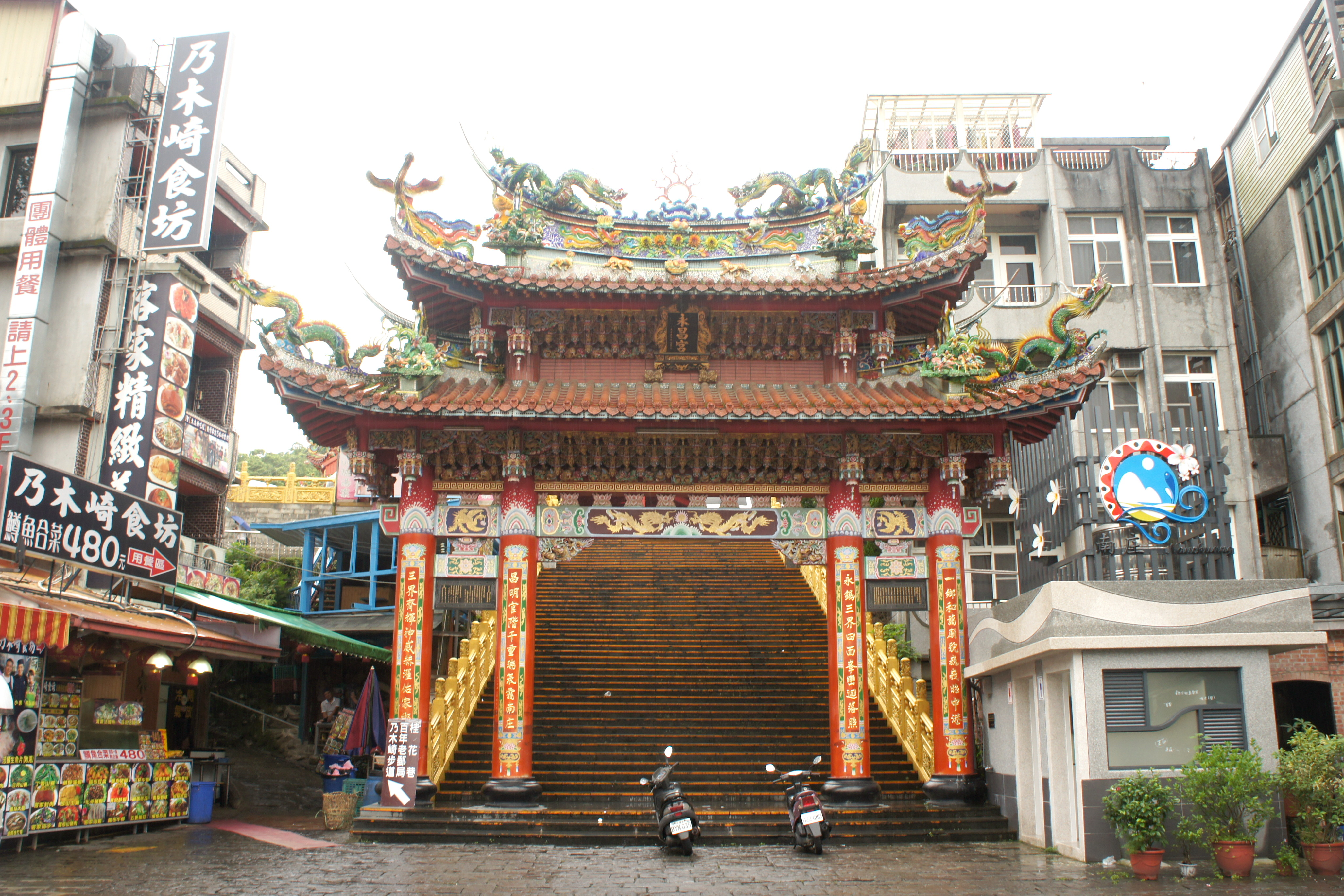 Nanzhuang Yungchang Temple, Nanzhuang Old Street, Nanzhuang Township, Miaoli County, Taiwan.